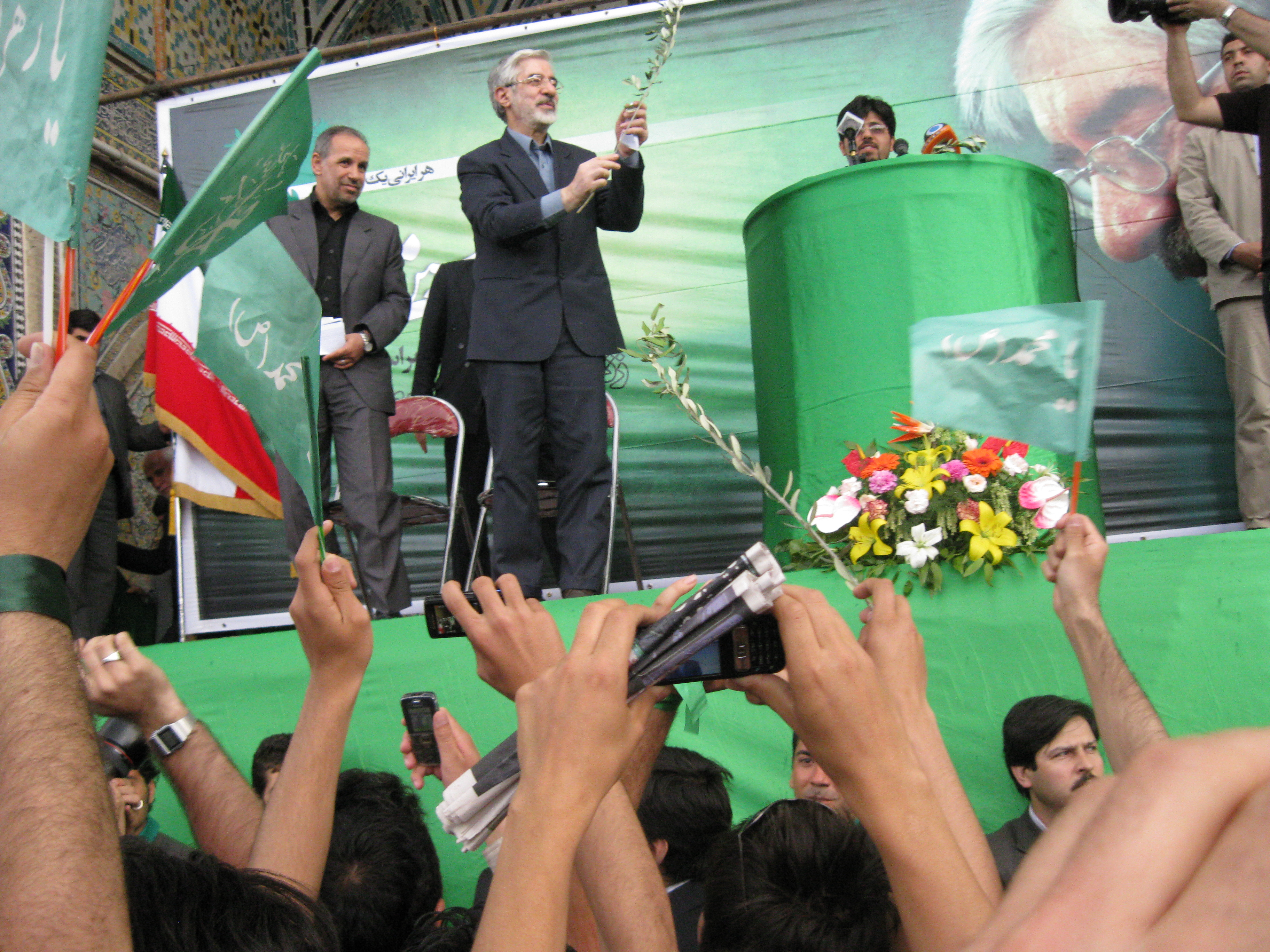 Mir-Hossein Mousavi iranian former prime minister in Zanjan